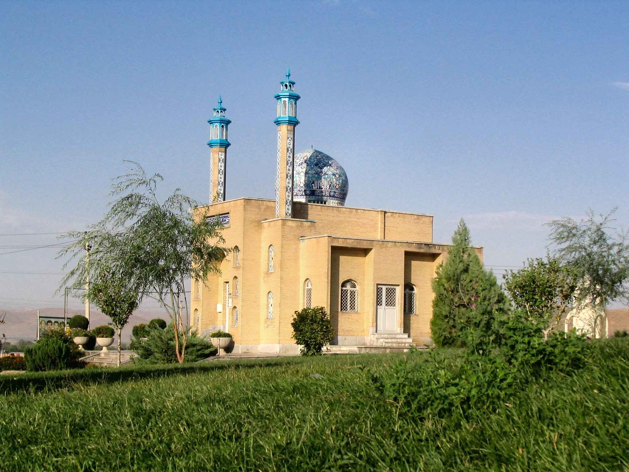 A mosque in Malayer, off the Hamadan Road, Iran